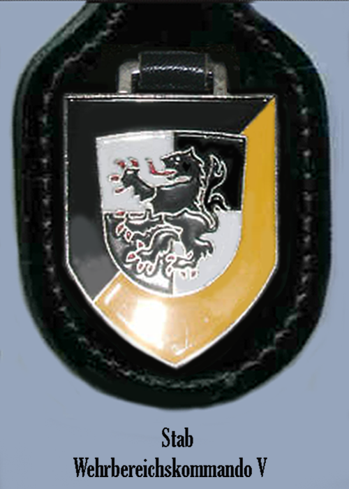 Internal coat of arms Stab Wehrbereichskommando V (WBK V) of the Bundeswehr (Armed Forces of the Federal Republic of Germany). → Remarks on naming and categorization scheme